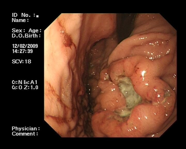 Gastric Ulcer: Endoscopic picture of gastric metastatic melanoma.. .